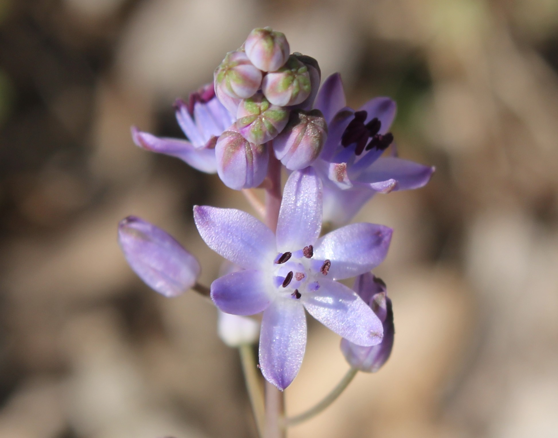 Prospero autumnale petals